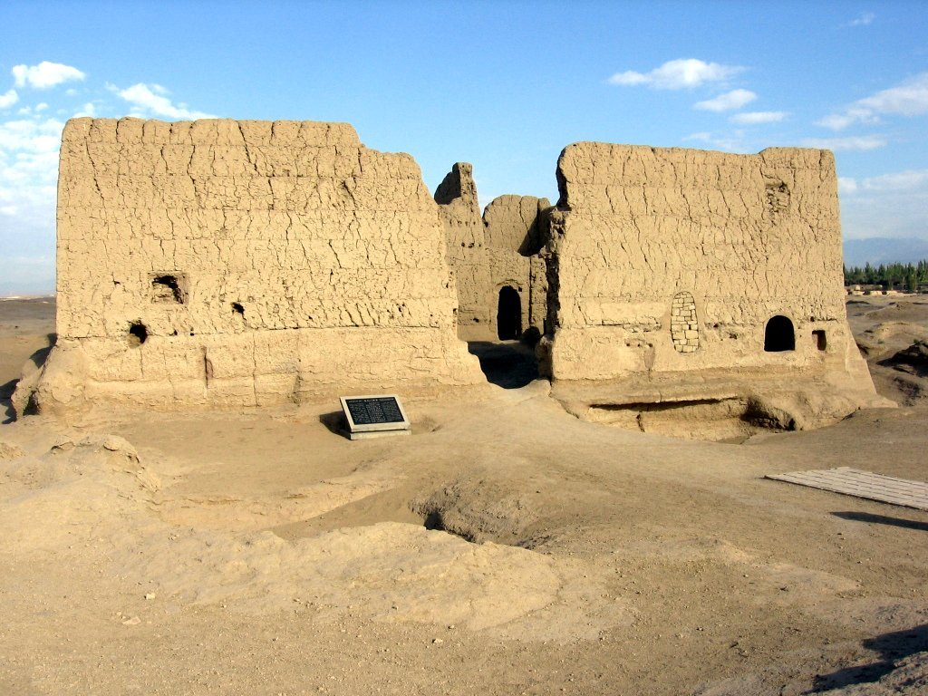 Turpan (Turfan/Tulufan) is an oasis city in the Xinjiang Uygur Autonomous Region of the People's Republic of China. Jiaohe ruins.